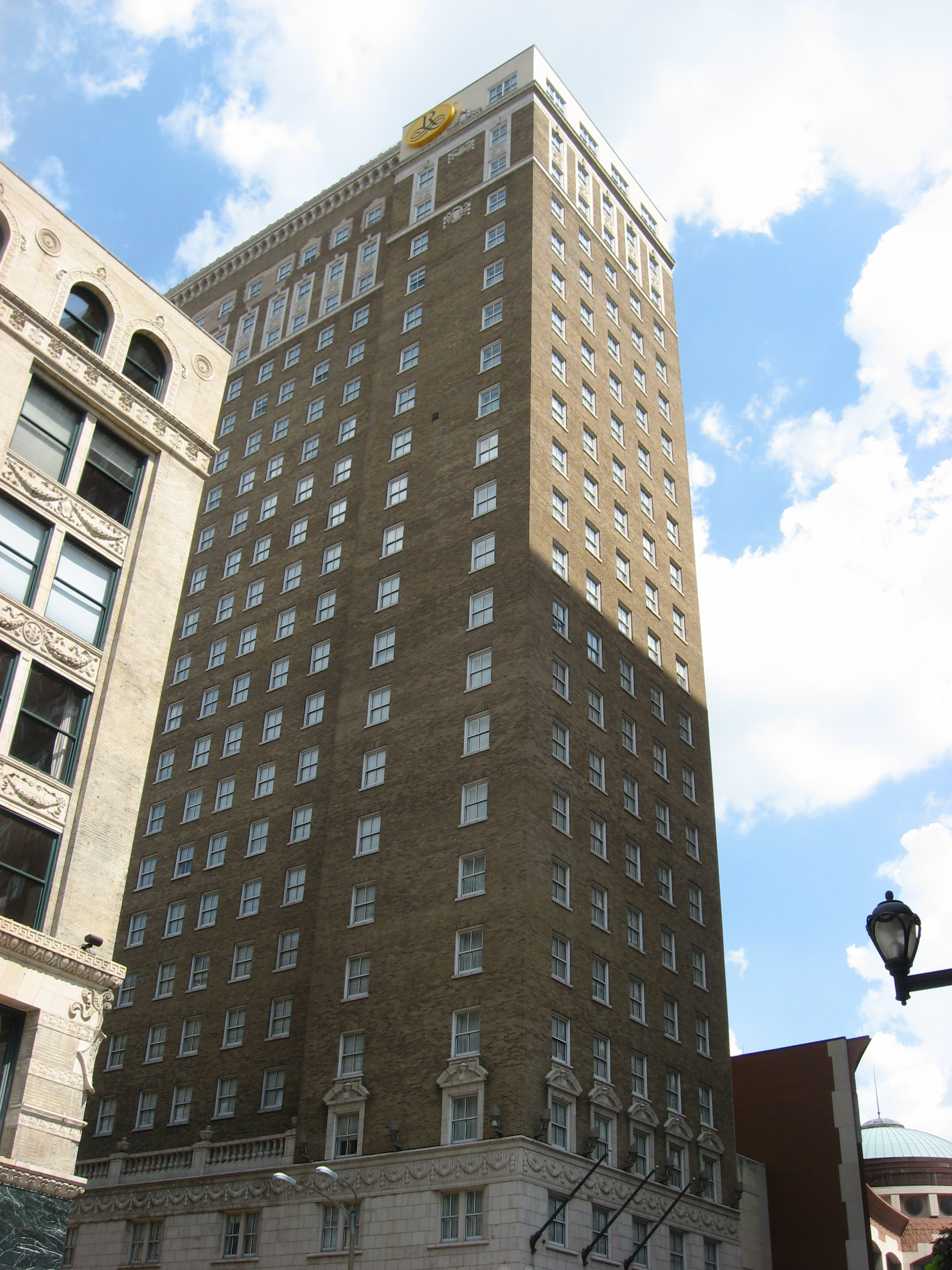 Top of the Lennox Hotel, located at 823-827 Washington Avenue in St. Louis, Missouri, United States. Built in 1929, it is listed on the National Register of Historic Places.